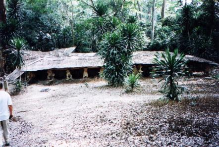 Temple of Osun in Osogbo - Osun state - Nigeria - Africa